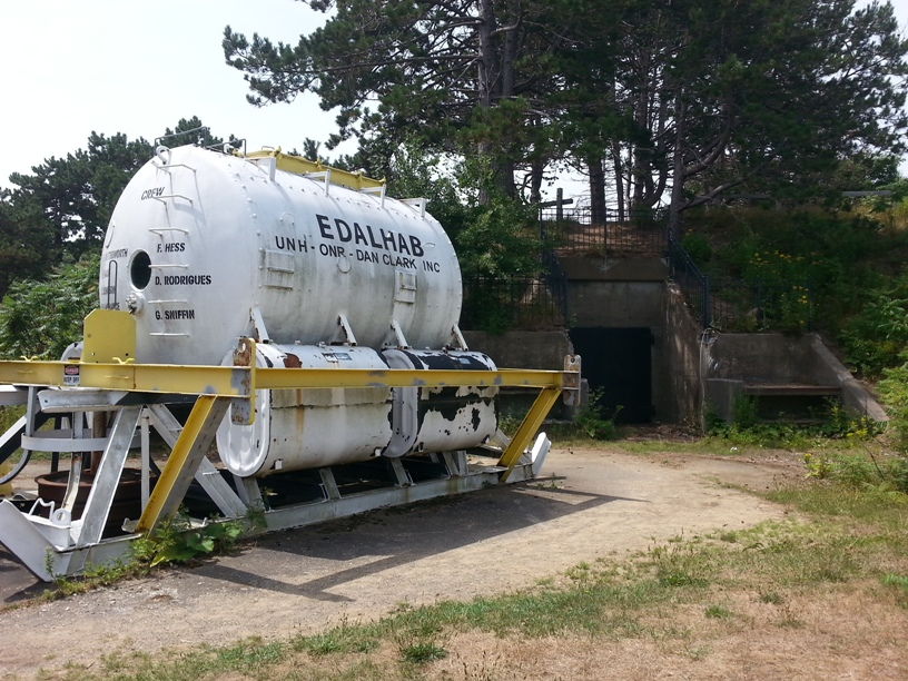 EDALHAB, an underwater habitat used for saturation diving experiments in Lake Winnipesaukee in the late 1960s, at the Seacoast Science Center, Odiorne Point State Park, New Hampshire. A former 6-inch gun battery is in the background.